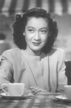 Setsuko Hara in the Japanese motion picture Late Spring (1949).